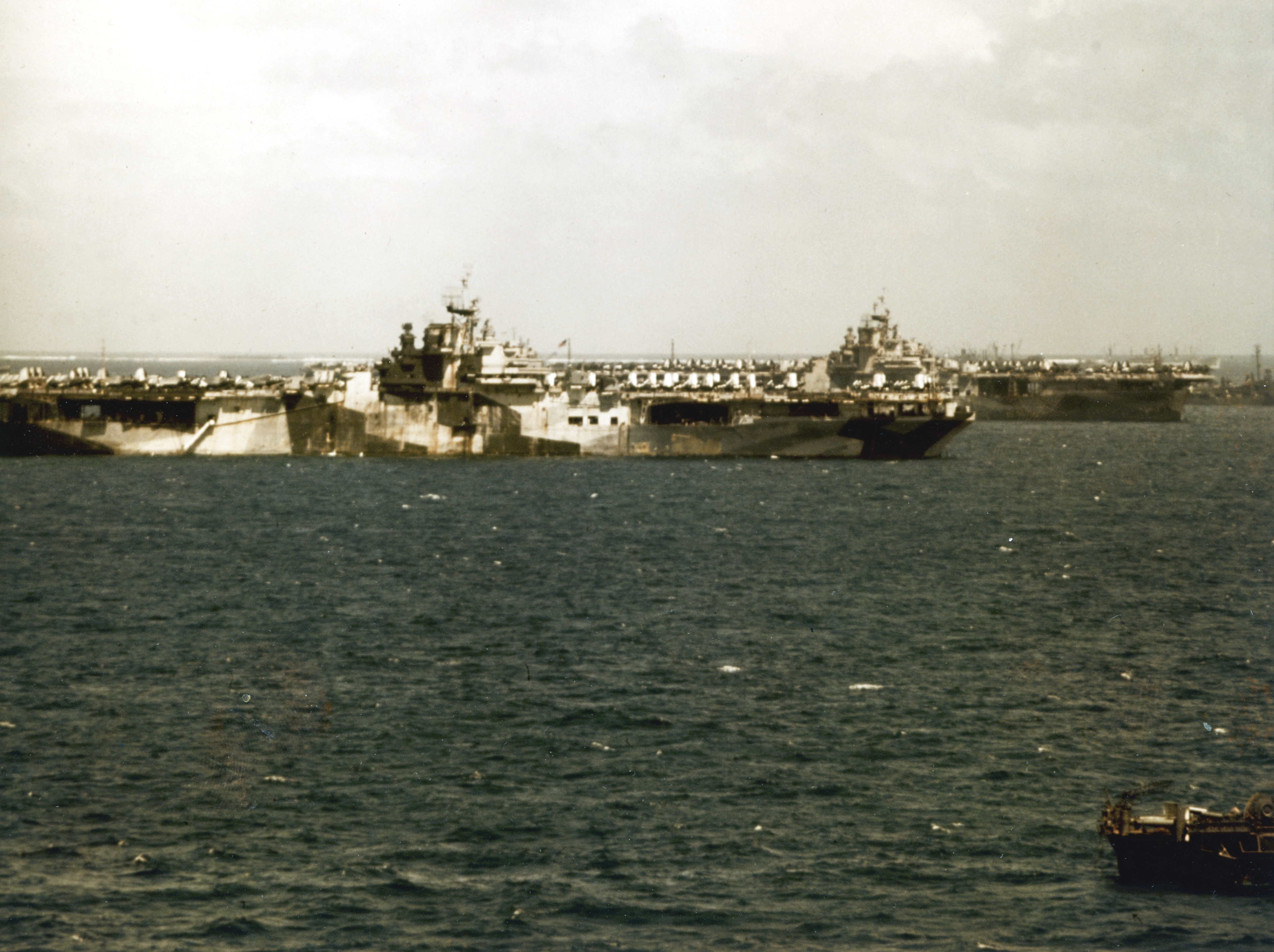 The U.S. Navy aircraft carriers USS Hancock (CV-19) and USS Wasp (CV-18) at Ulithi anchorage, circa mid-March 1945.